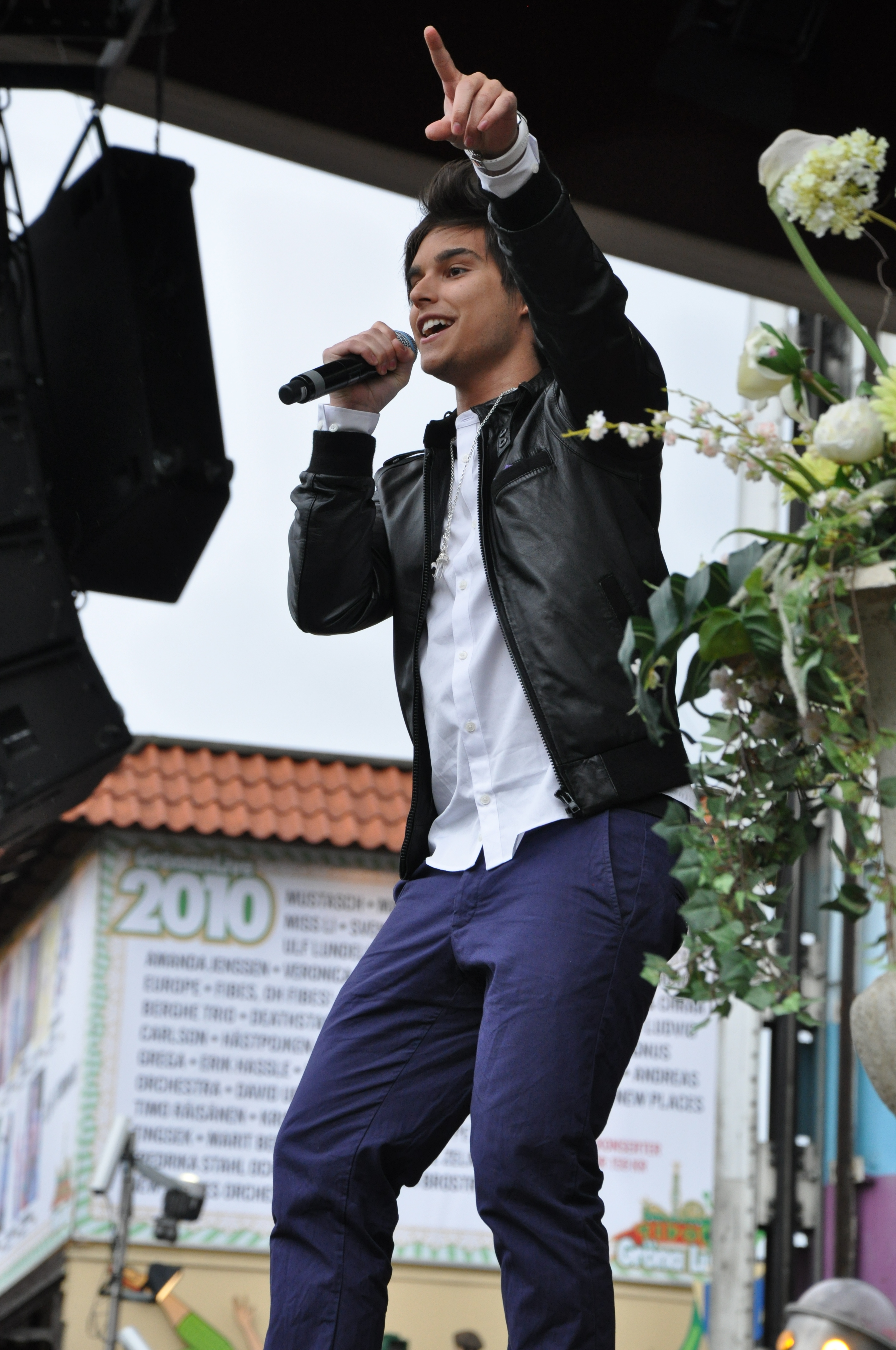 Eric Saade, at Gröna Lund, Stockholm, 23-may-2010